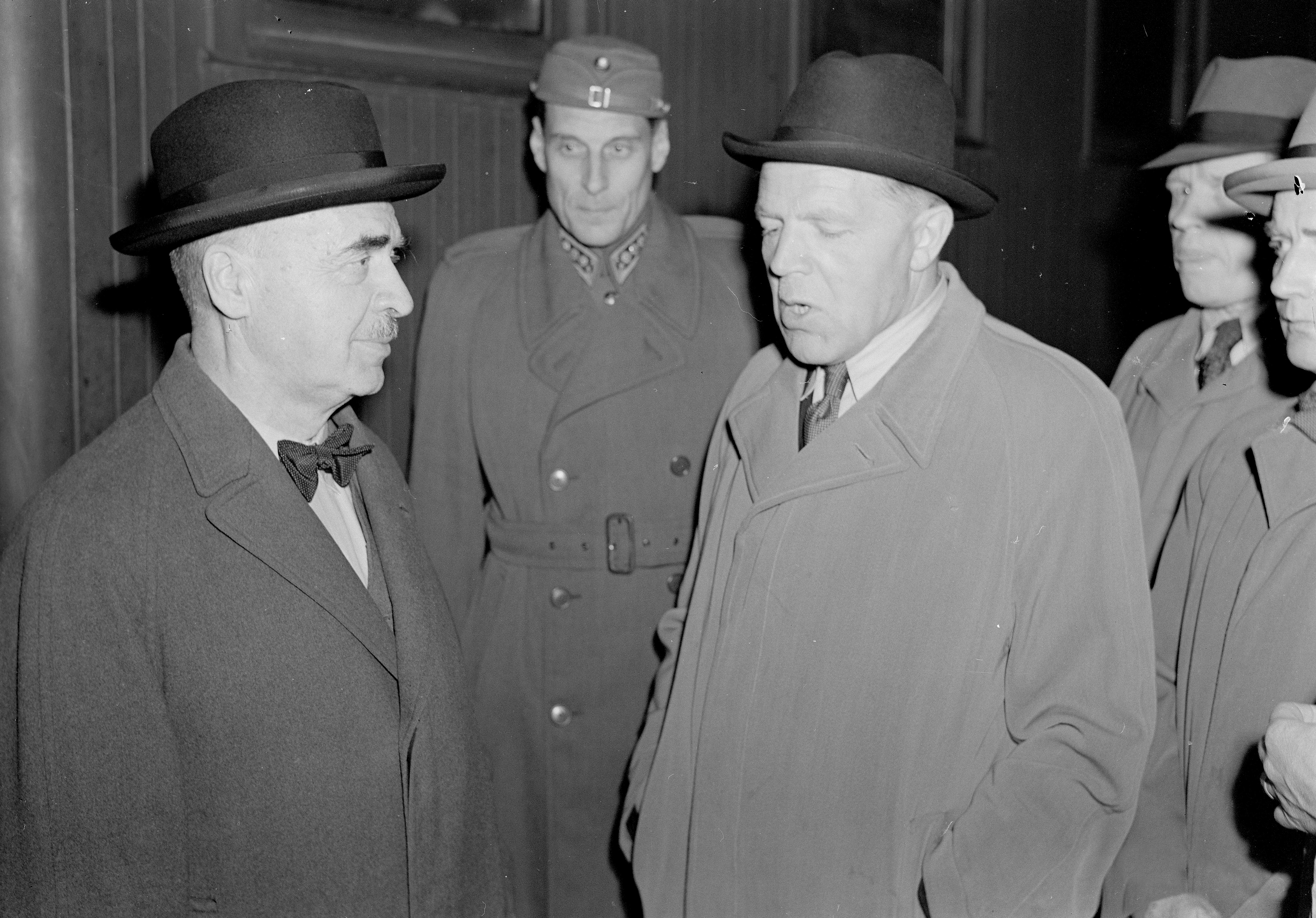 Prime minister Hackzell's (left) travel to Moscow. Other in picture - ministers Paloheimo in the middle and Kalliokoski on the right.